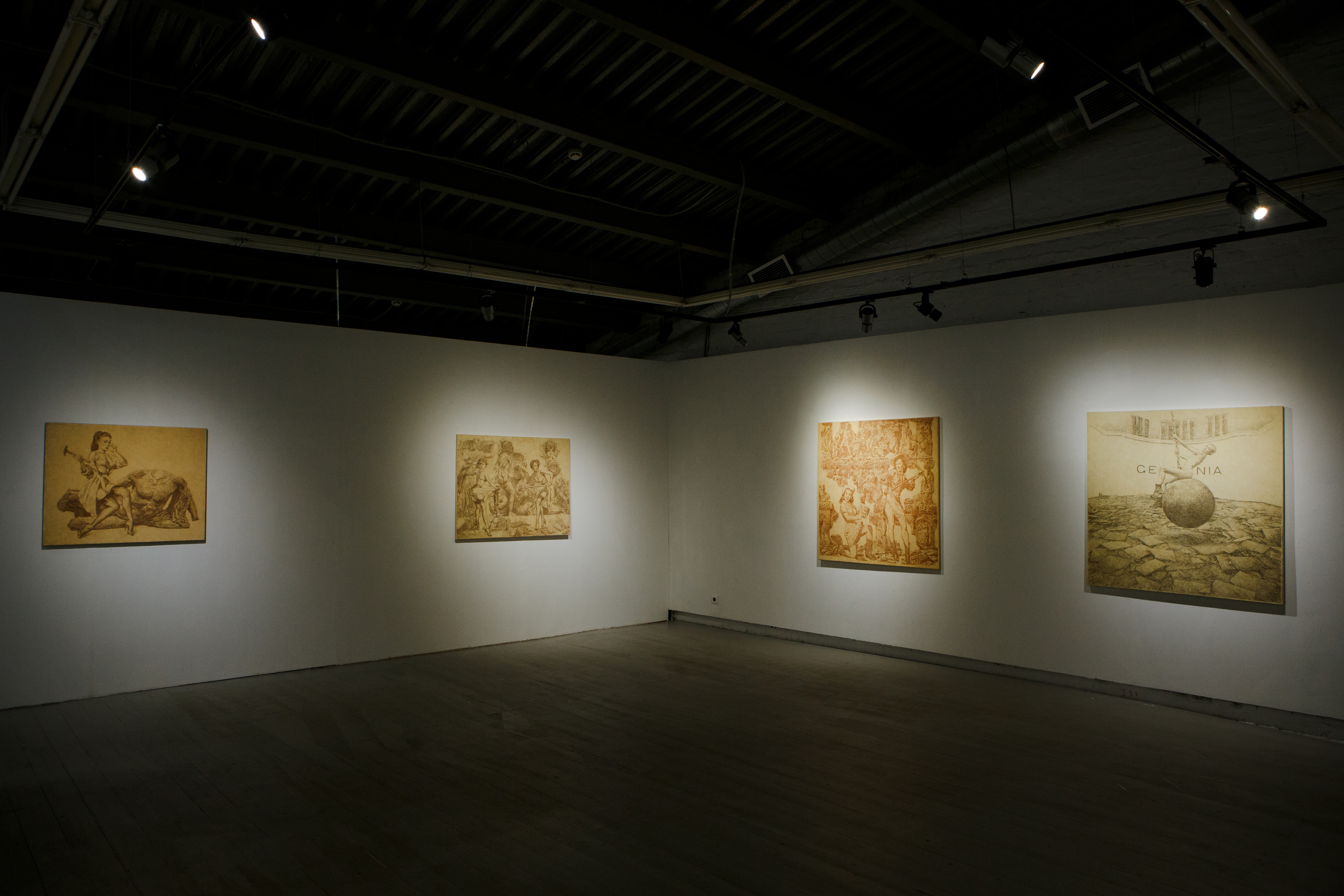 11.12GALLERY Kolesnikov